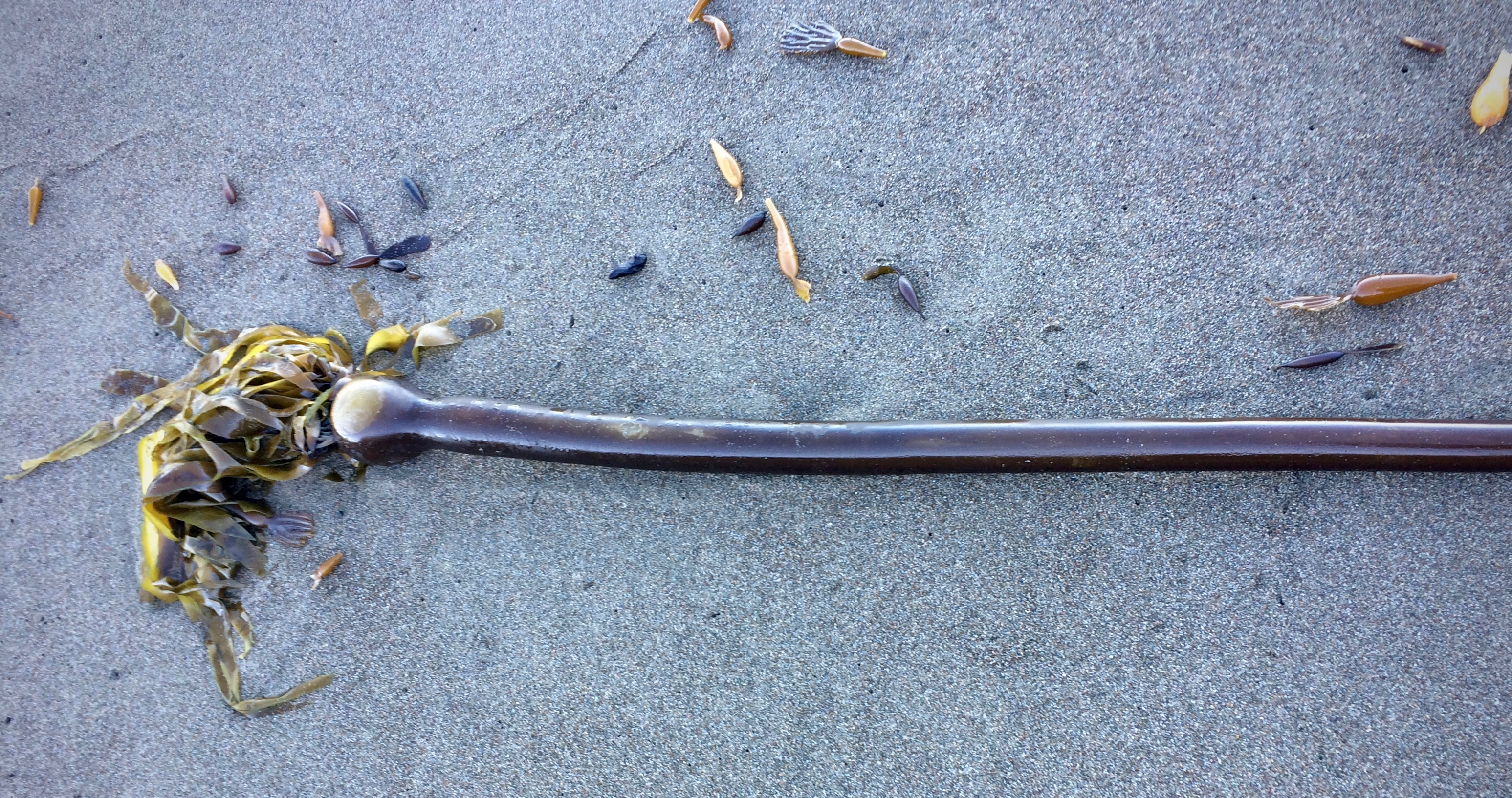 Bull kelp, Nereocystis luetkeana, Moonstone north beach north of Cambria CA. Lots of fresh Bull Kelp on the beach today, from the big waves of the last few days.